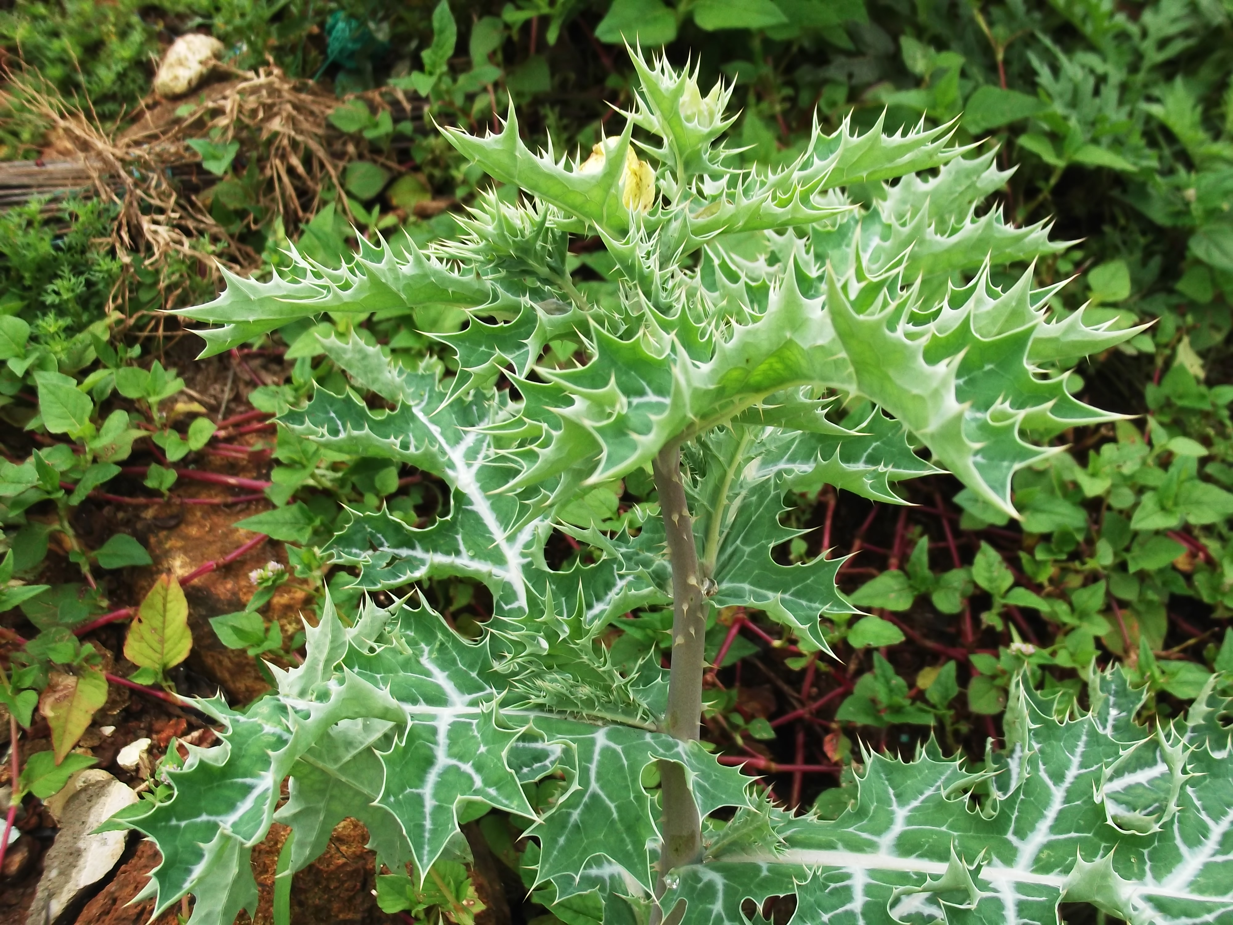 Prickly poppy-prickly leaved annual,clasping deeply lobed and spine-tipped,flowers yellow.